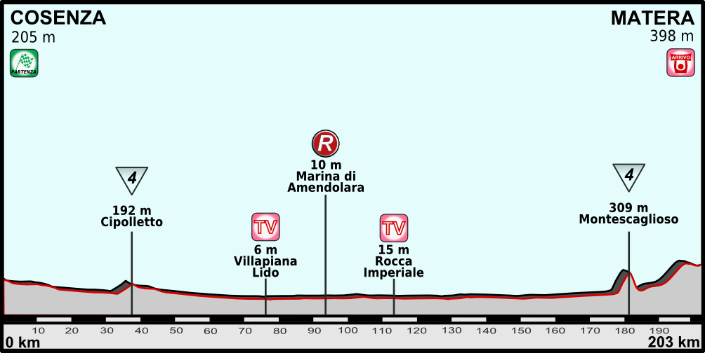 Giro d'Italia 2013 - stage profile # 05